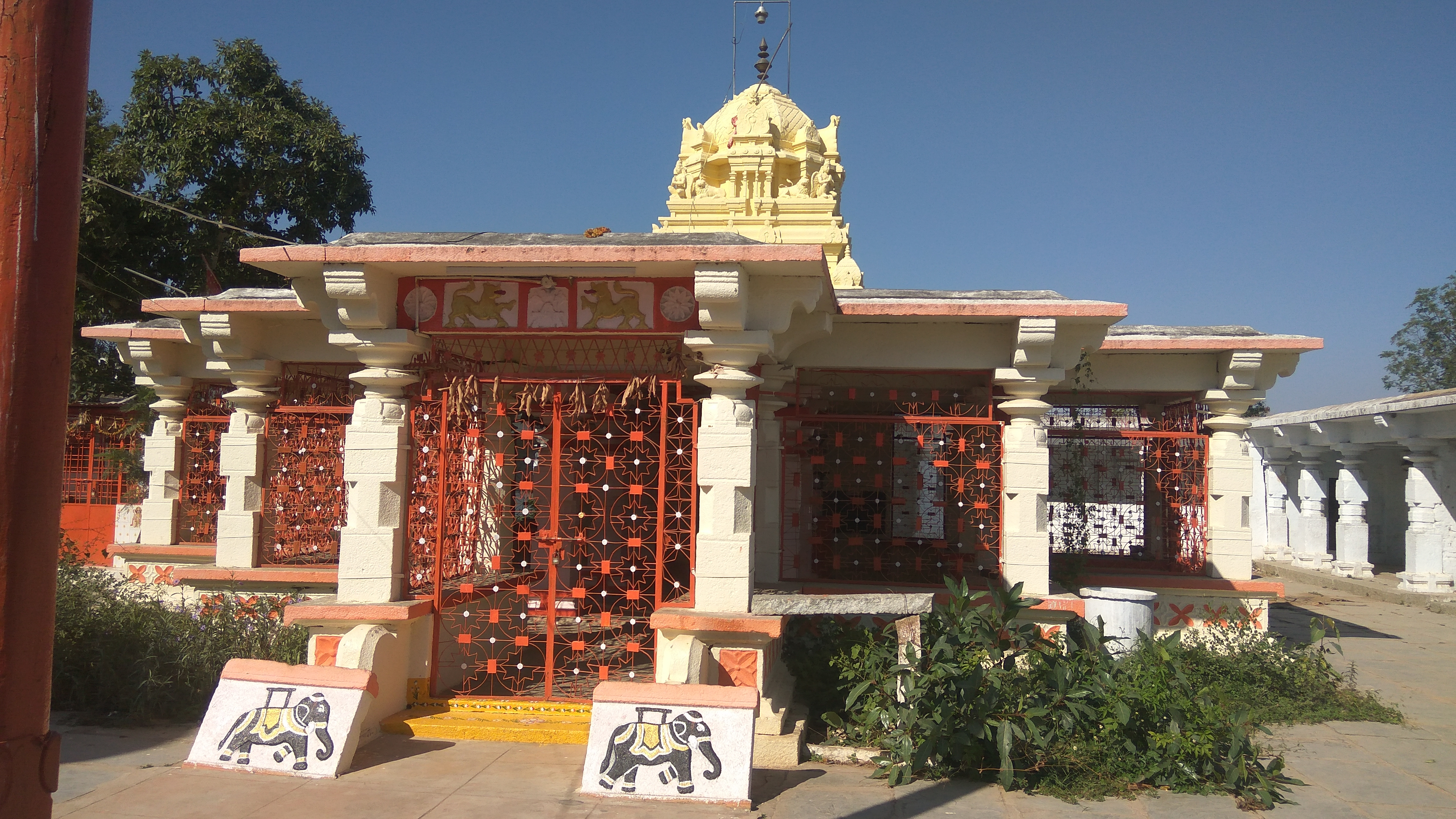 Lord ShivaSeethaRamAnjaneya Temple in Madharam Village, Urkonda Mandal, Nagar Karnool District in Telangana State